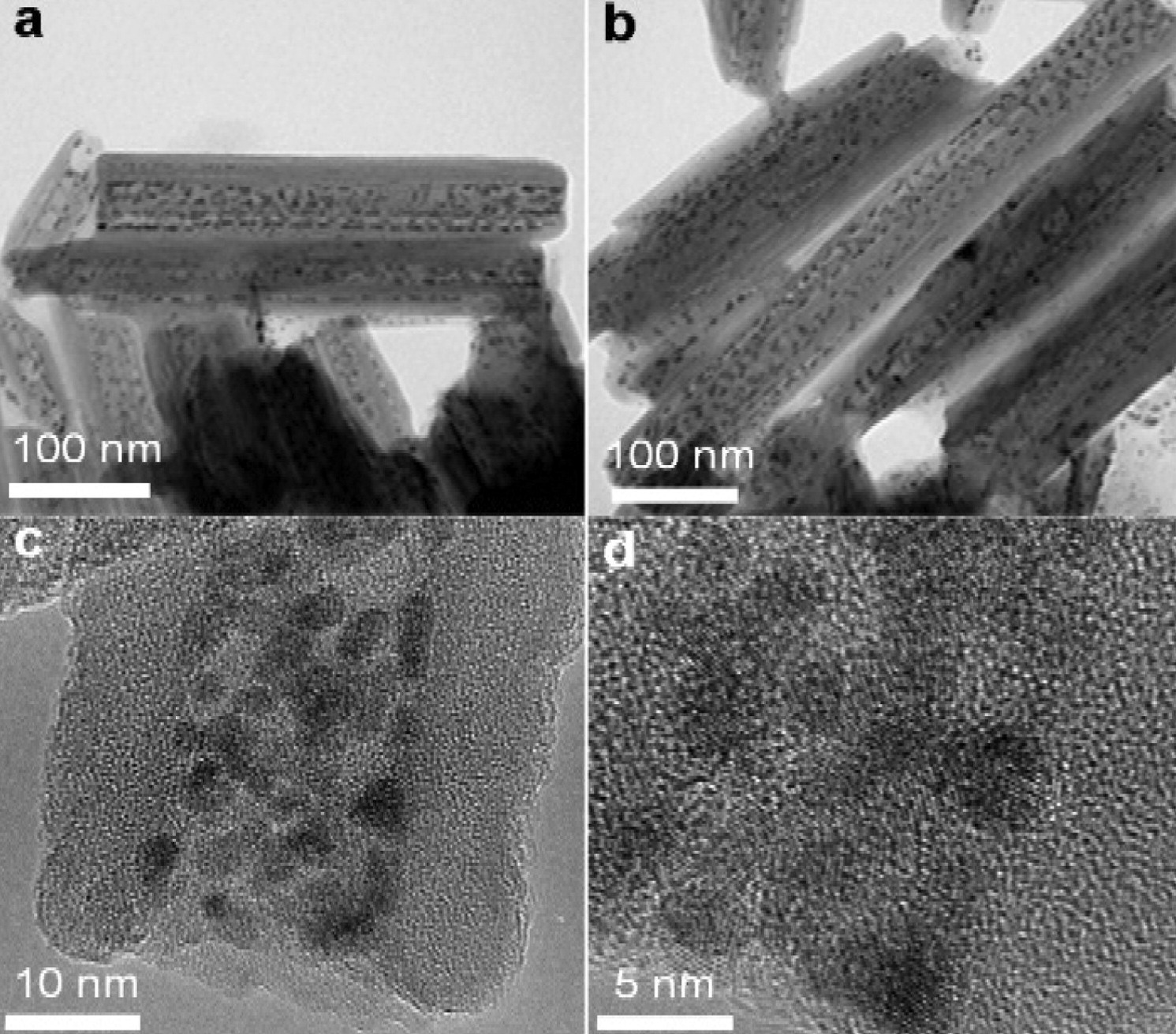 Transmission electron microscopy (TEM) of halloysite nanotubes intercalated with Ru nanoparticles bound through Schiff bases. (a-d) Morphology of the sample, (c-d) Ru nanoparticles distribution inside halloysite lumen.